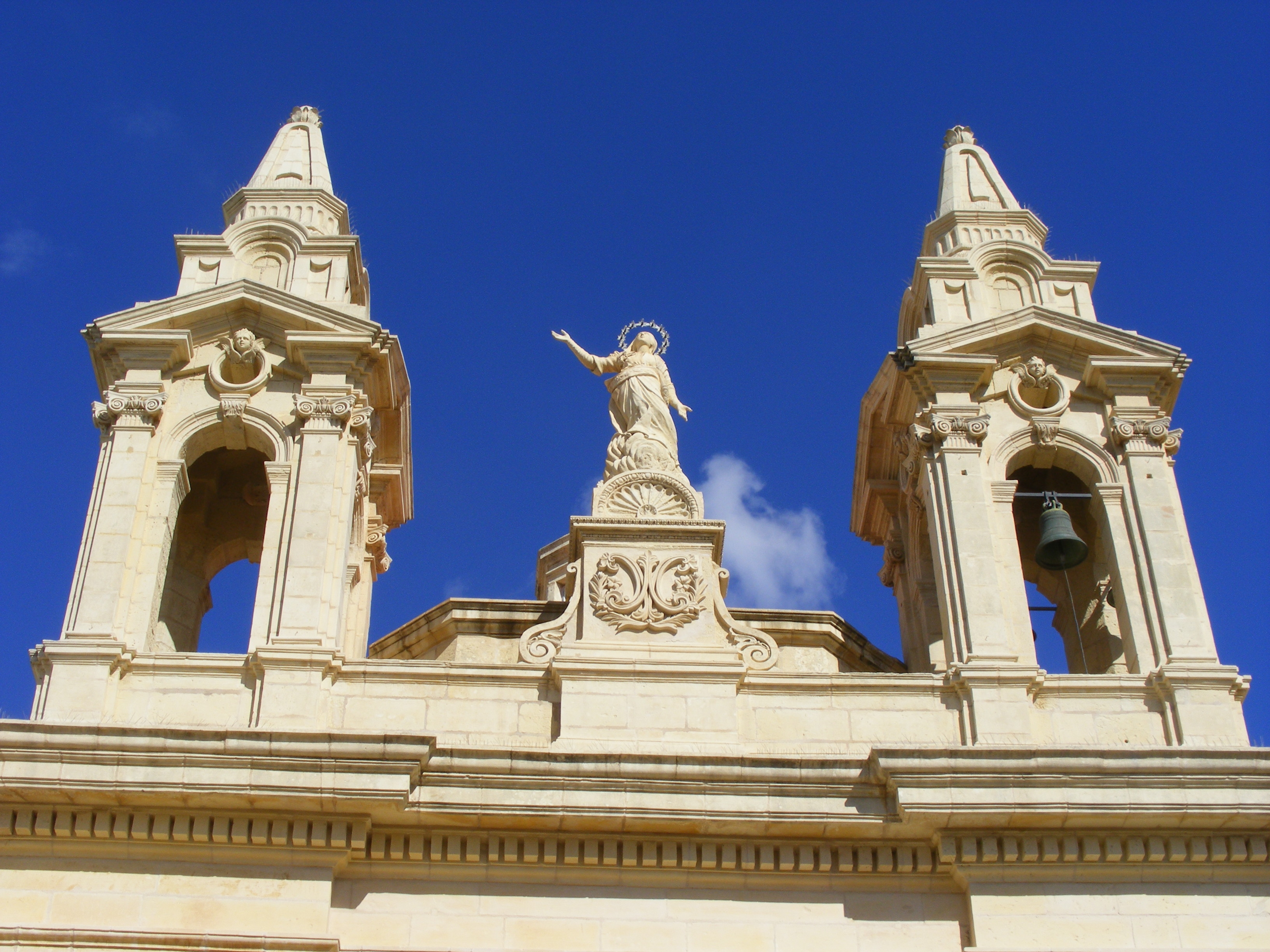 Church of Assumption Virgin Mary, Tarxien, Malta (bell towers)